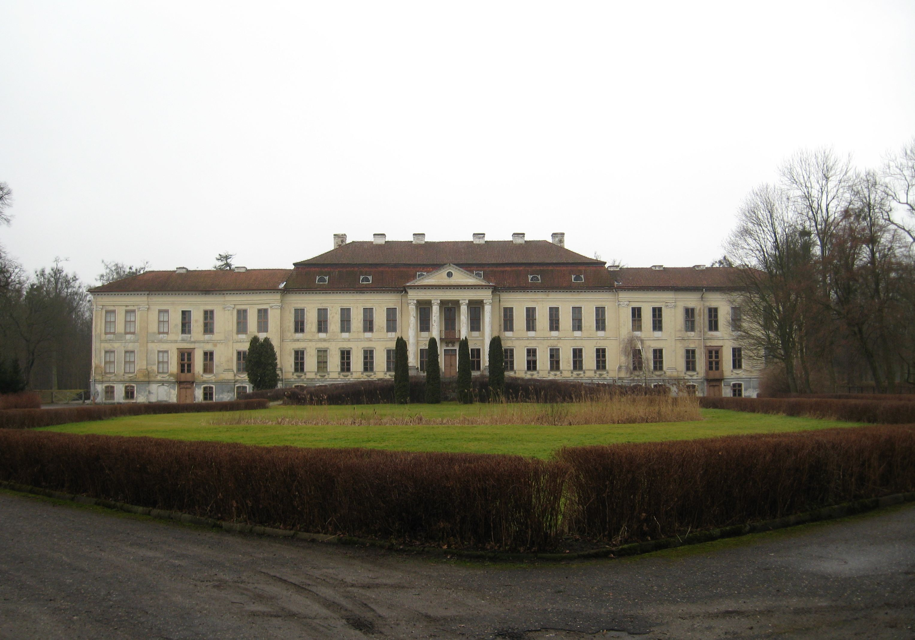 Palace w Drogosze (Groß Wolfsdorf) in Poland